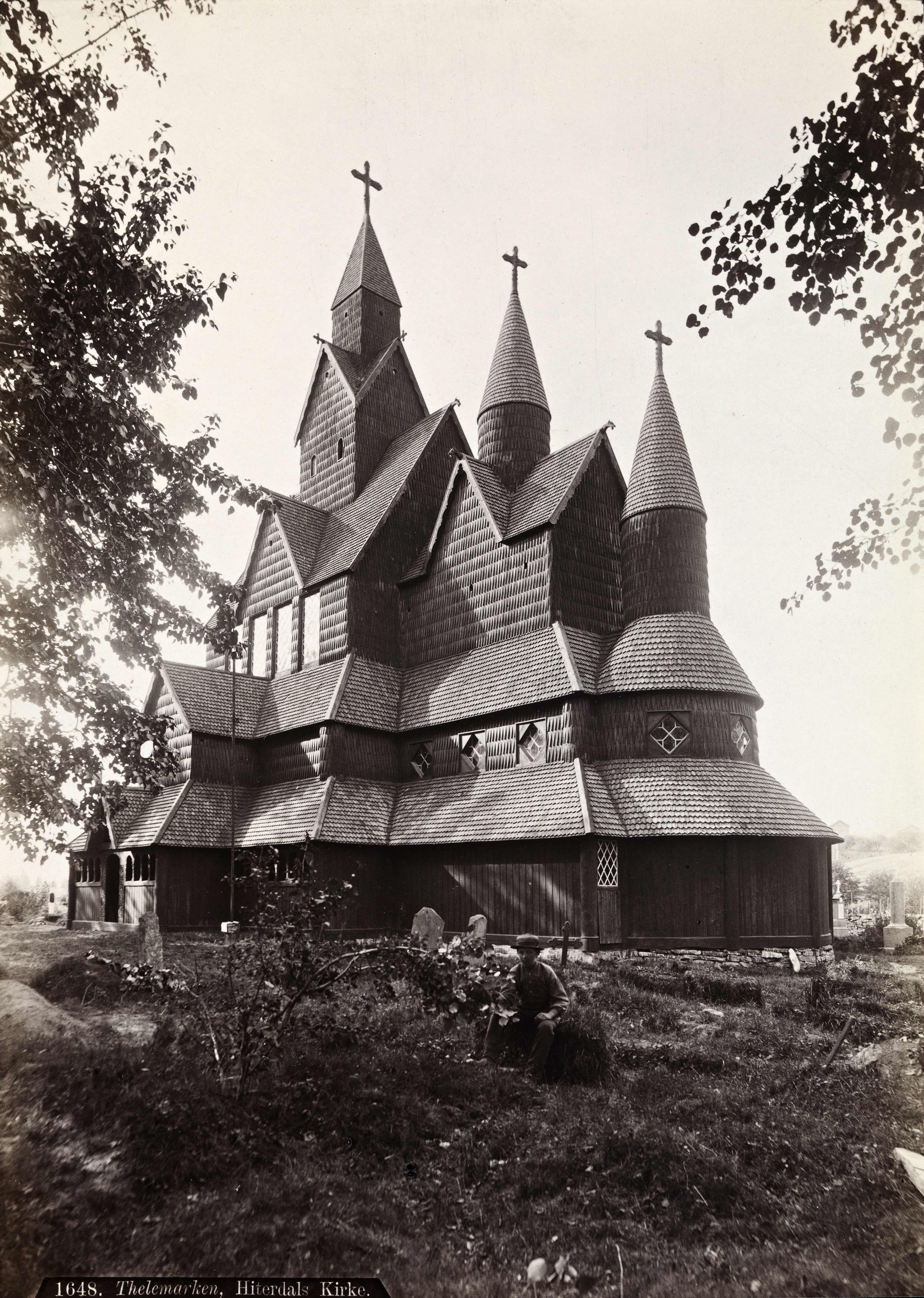 Motiv / Motif: Heddal stavkirke. Antakelig oppført mellom 1200 og tidlig på 1300-tallet. Også kalt Hitterdals Mariakirke. Dato / Date: 1880-1890 Sted / Place: Telemark, Notodden, Heddal stavkirke Fotograf / Photographer: Axel Lindahl (1841-1906) Digital kopi av original / Digital copy of original: albuminkopi Eier / Owner Institution: Nasjonalbiblioteket / National Library of Norway Lenke / Link: Bildesignatur / Image Number: bldsa_AL1648